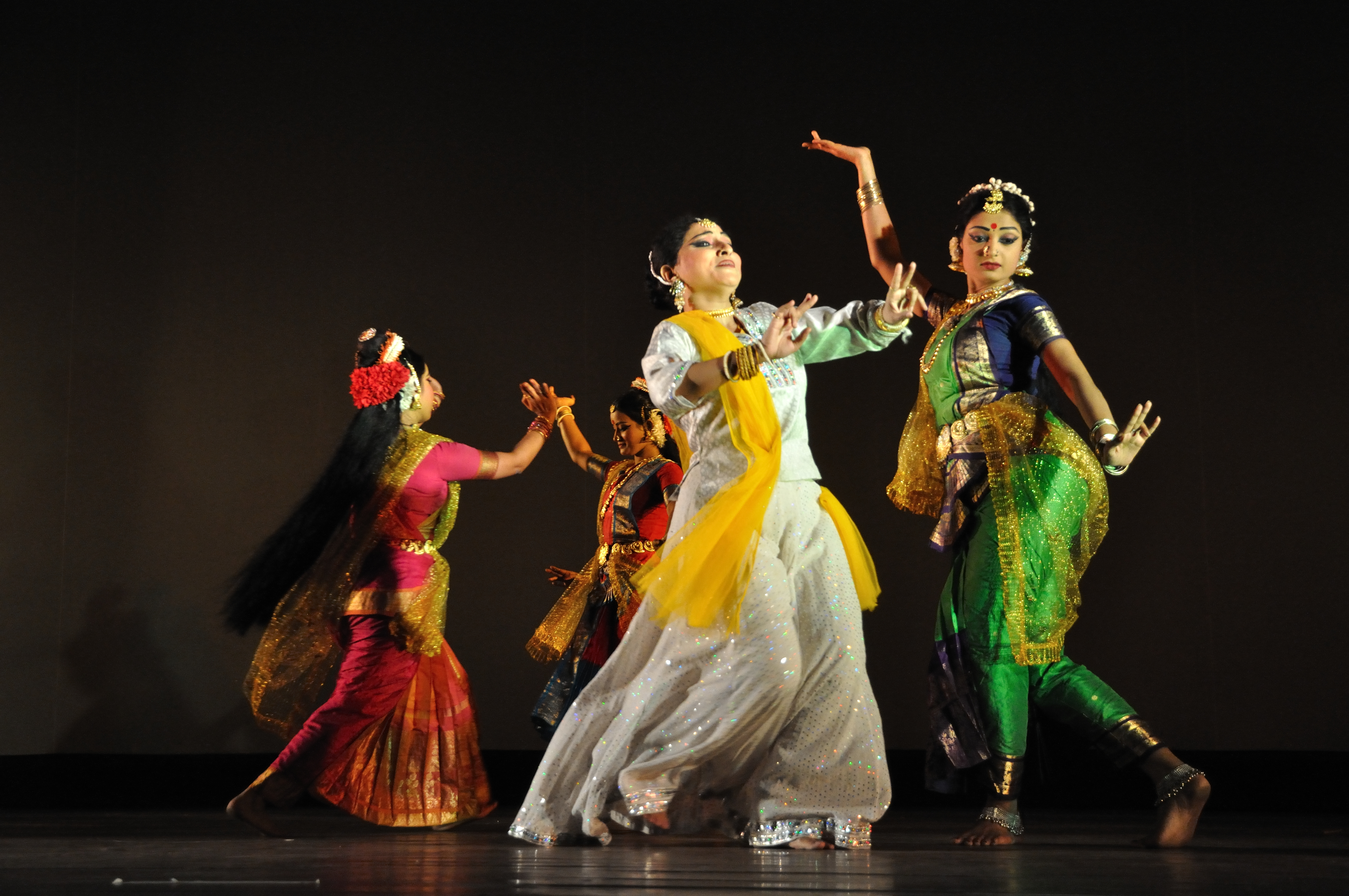 The Season’s Galore (bn: Rituranga) dance with Rabindranath Tagore’s song (bn: Rabindra Sangeet) performed by the ‘Kalamandalam’, Kolkata. It was choreographed & directed by Dr. Thankamany Kutty at Science City, Kolkata. This media file is uploaded with India loves Wikipedia event.